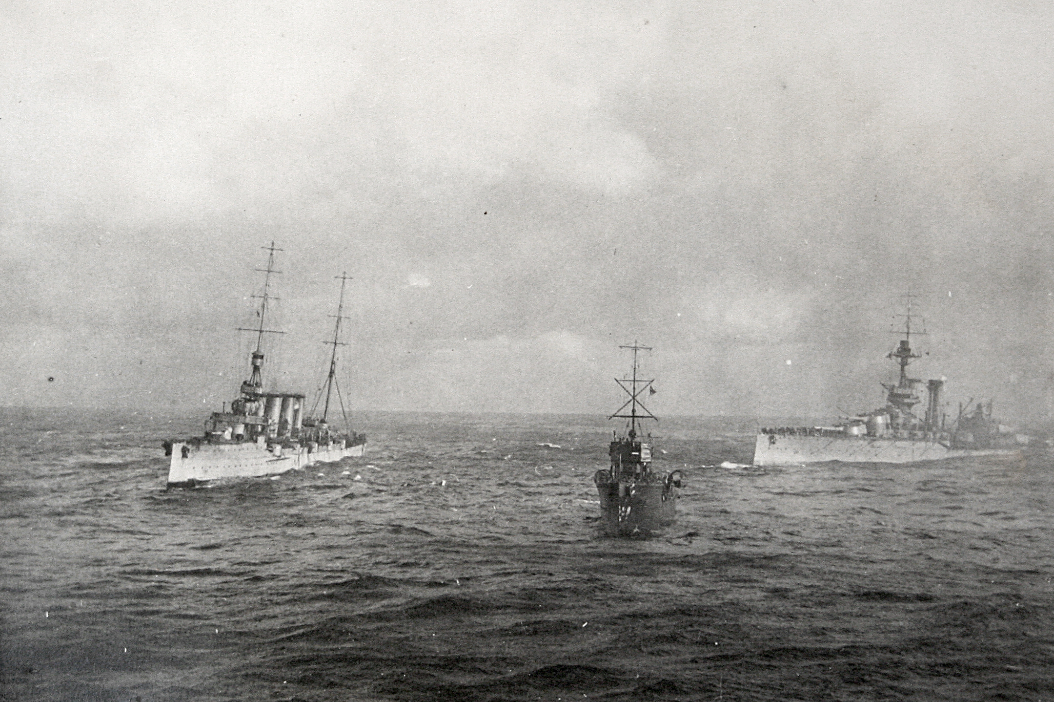 HMS Liverpool and another naval vessel (HMS Fury), together with RMS Olympic, try to take the sinking HMS Audacious in tow.